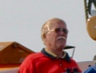 Leo Determan in 2017 as spectator during the Soling Worlds at Muiden, The Netherlands